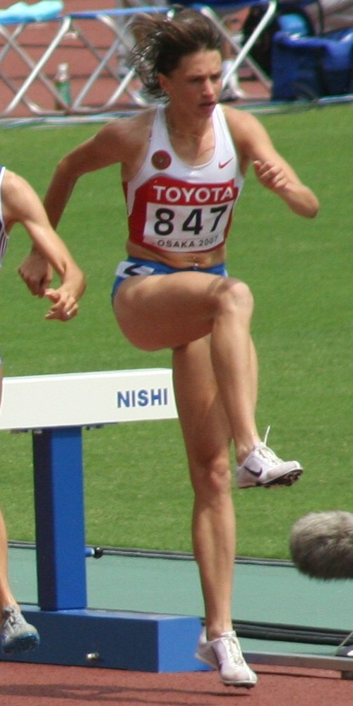 World Athletics Championships 2007 in Osaka - Women's 3000 meter steeplechase 3rd heat. Yekaterina Volkova (847)